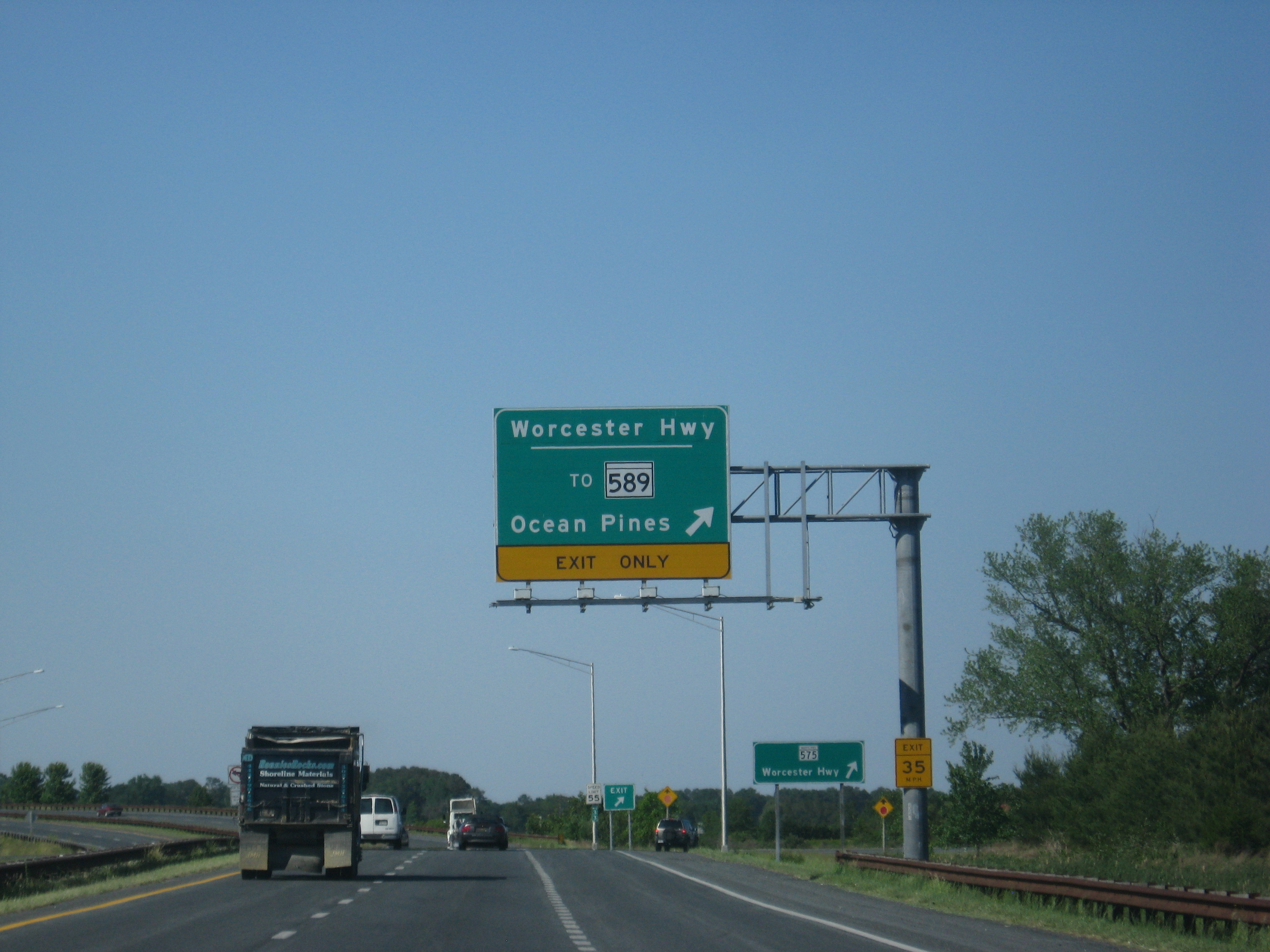 Northbound view of US 113 in Friendship, MD just south of the MD 589 interchange. This view offers the standard view of the sections of the highway expanded to a four-lane divided highway since 2000, which contain a narrow median with brown guardrail.